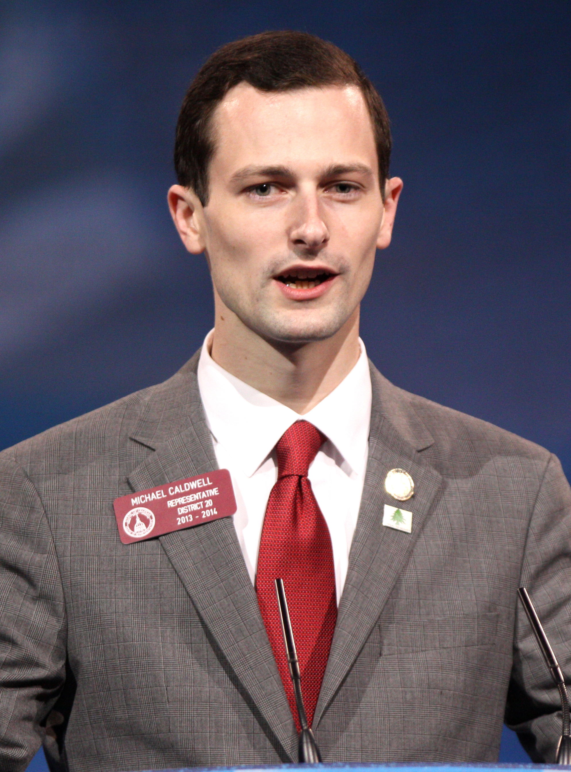 Michael Caldwell speaking at the 2013 CPAC in Washington, D.C.